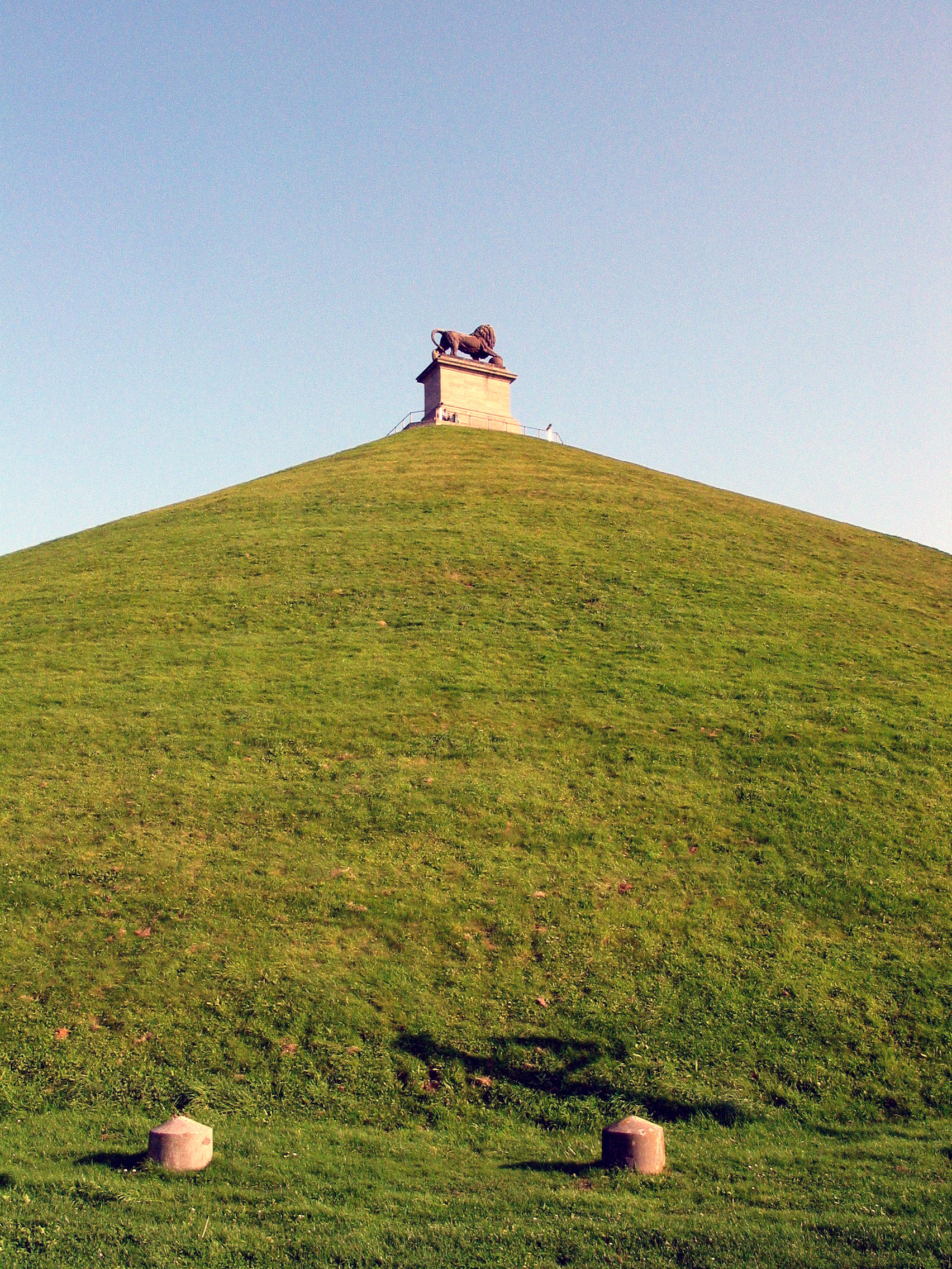 Braine-l'Alleud, the Lion Mound. - Commemorative monument of the Battle of Waterloo standing on the spot where the Prince of Orange was wounded during the fight.